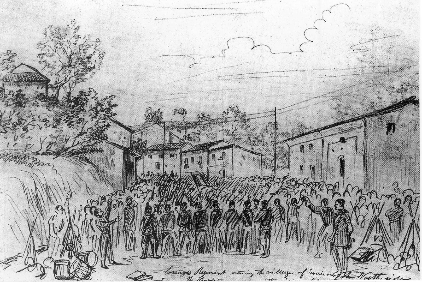 Surrender of the Neapolitan Troops at Soveria Mannelli, Calabria (30th August 1860)